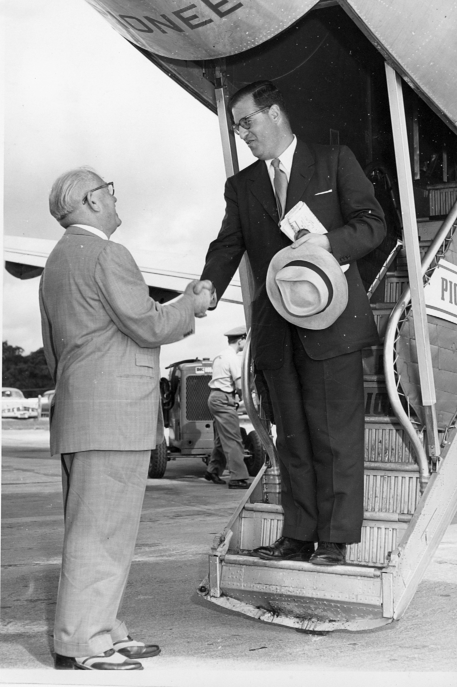 Jim Novy greeting Israeli Ambassador Abba Eban at his plane in Austin, Texas, May 24, 1953